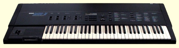 Author: Glen Stegner. Source: my own picture of the synthesizer. No URL. Fair use rationale: public domain. No extra tags.